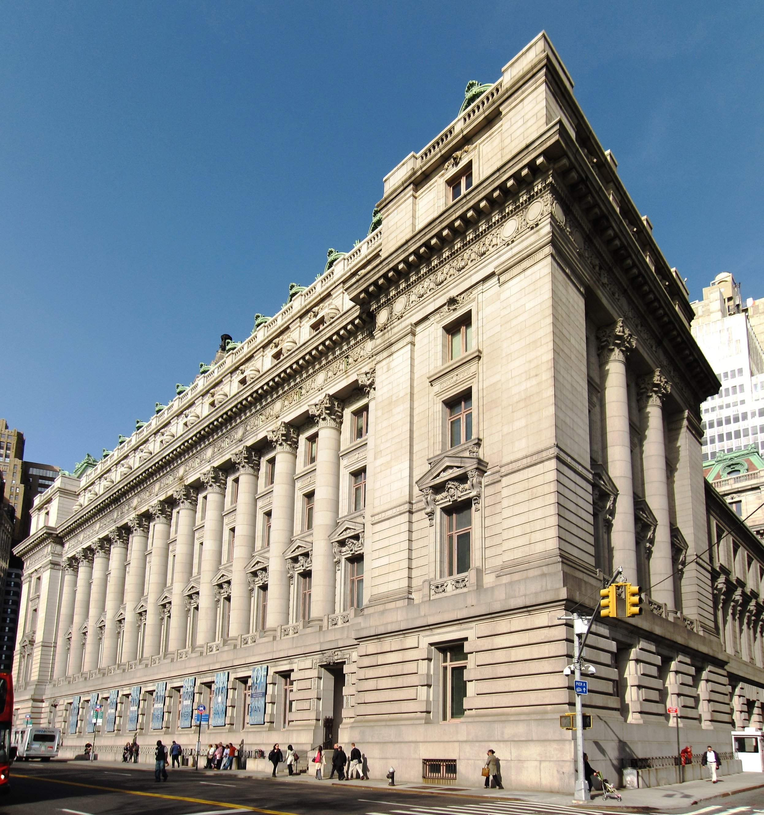 Alexander Hamilton U.S. Custom House